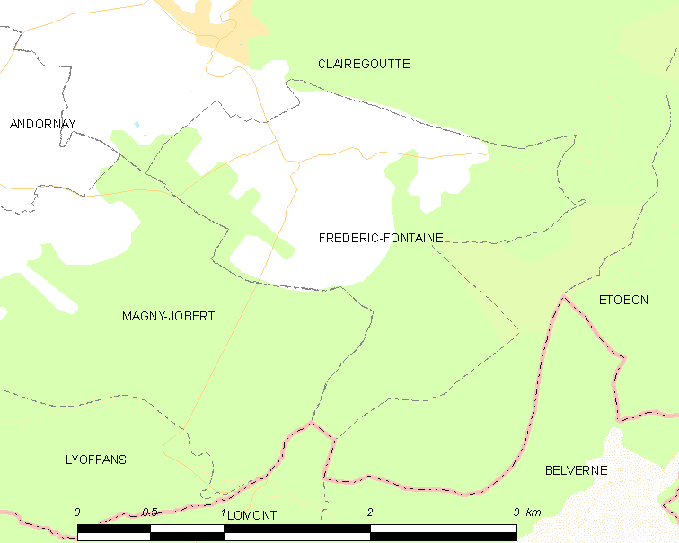 Map of French municipality